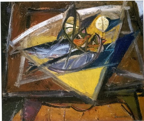 Edmond Boissonnet